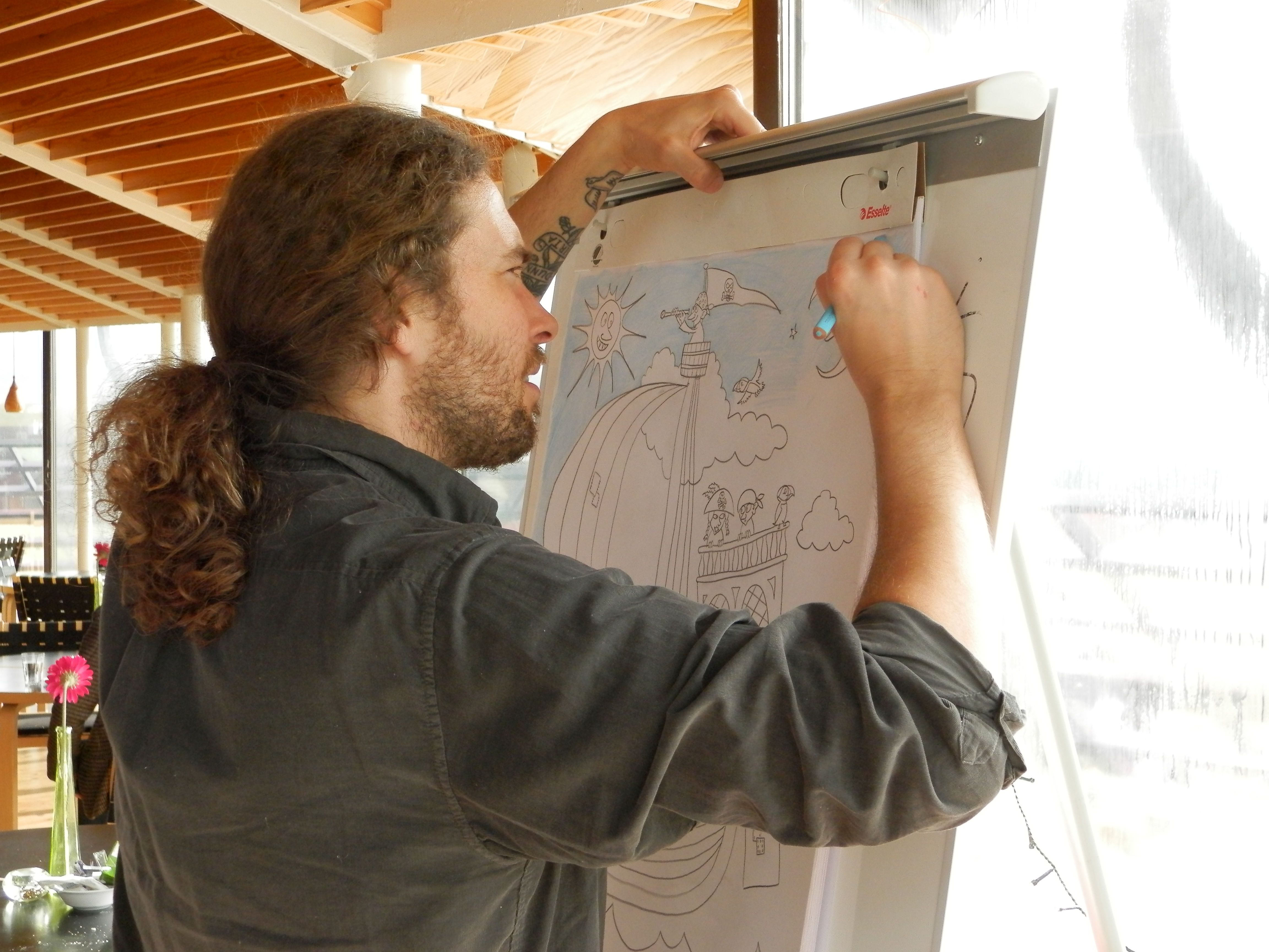 Janus á Húsagarði is a Faroese artist, illustrator and writer. He has written and illustrated the two Faroese children's books "Ferðin hjá Mosamollis" and "Ferðin hjá Mosalisu".